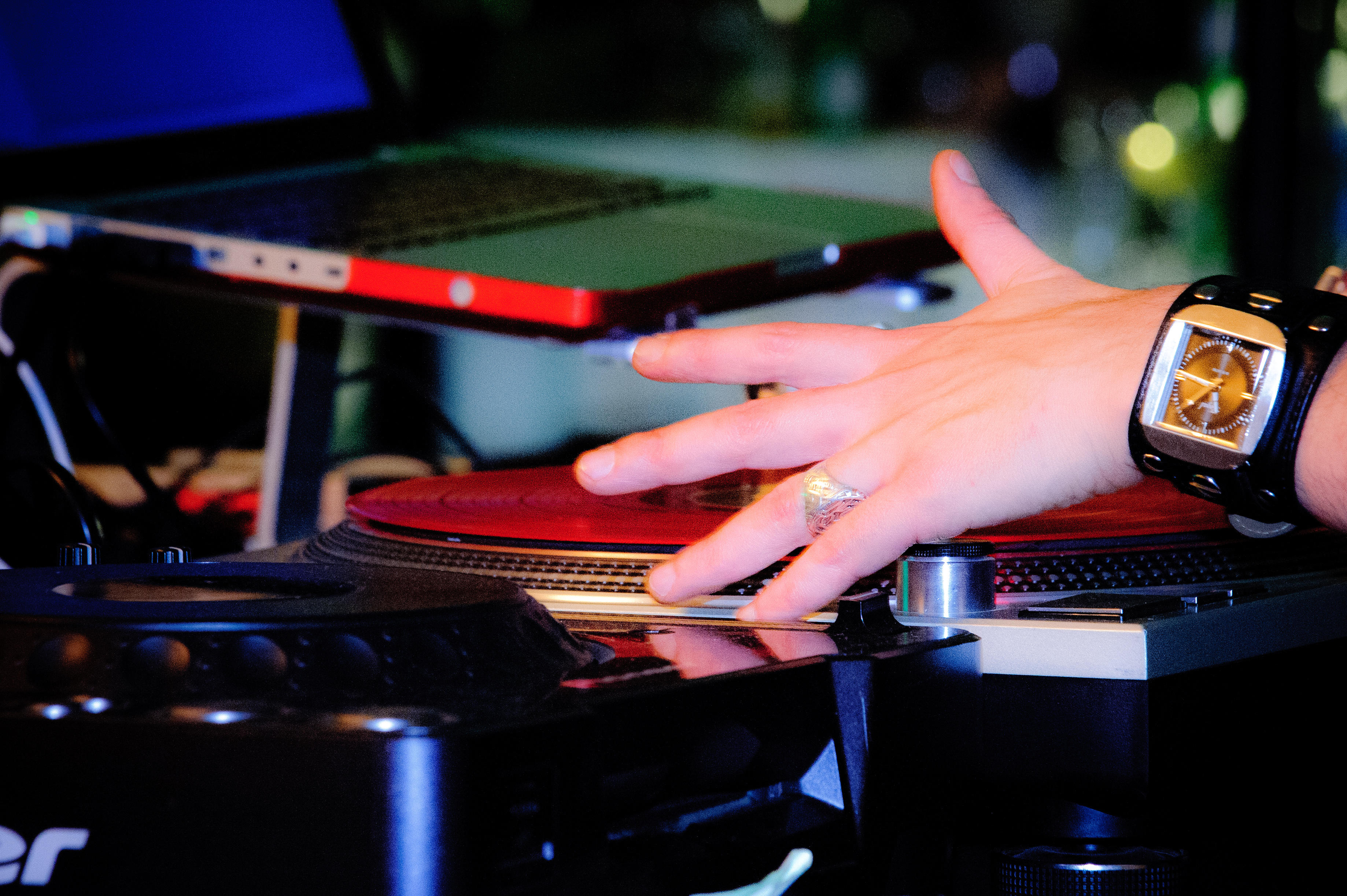 Detail: DJane Ipek Ipekcioglu Foto: Stephan Röhl